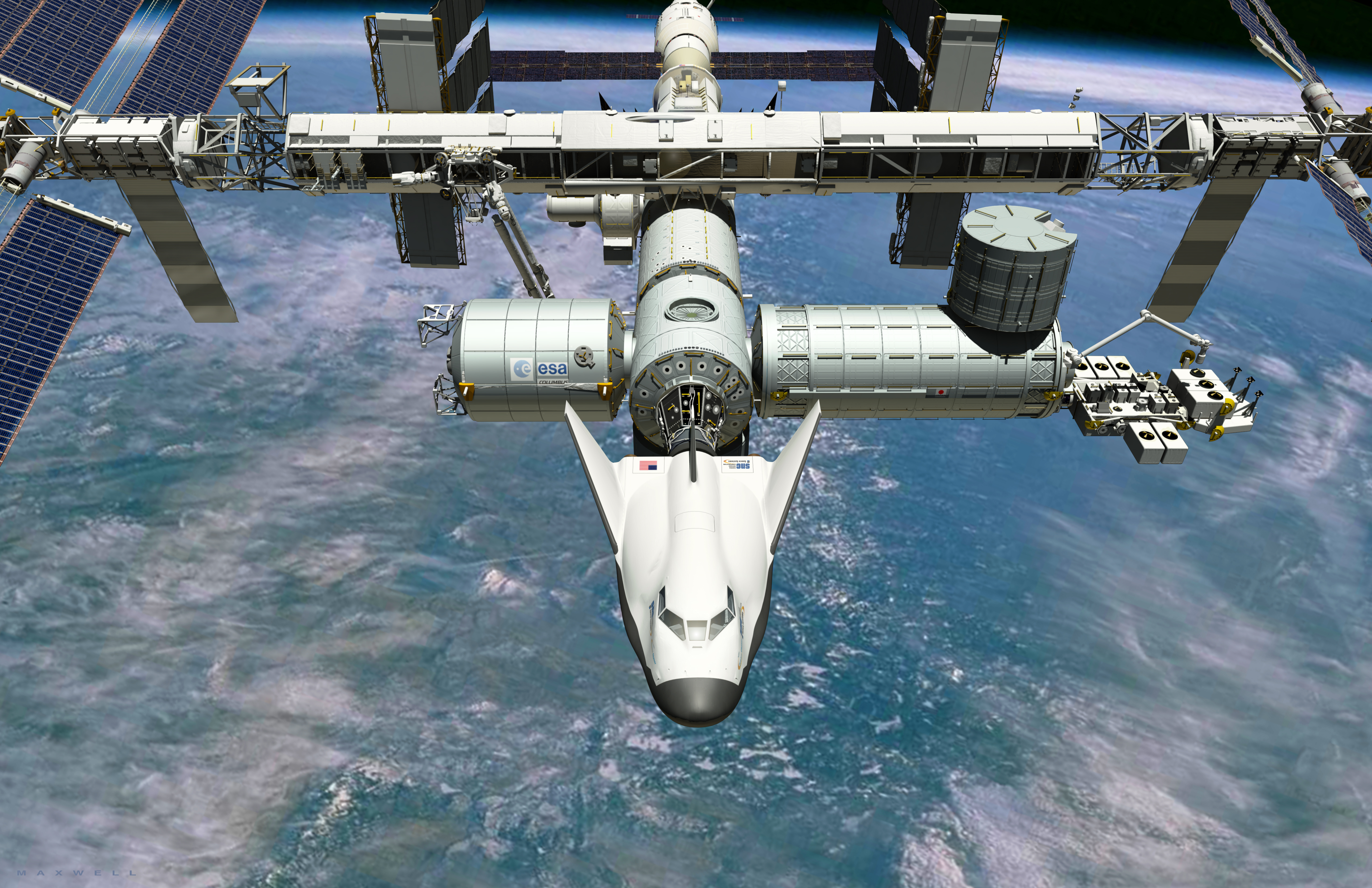 Artist's conception of the Dream Chaser commercial human space transportation vehicle docked to the International Space Station.